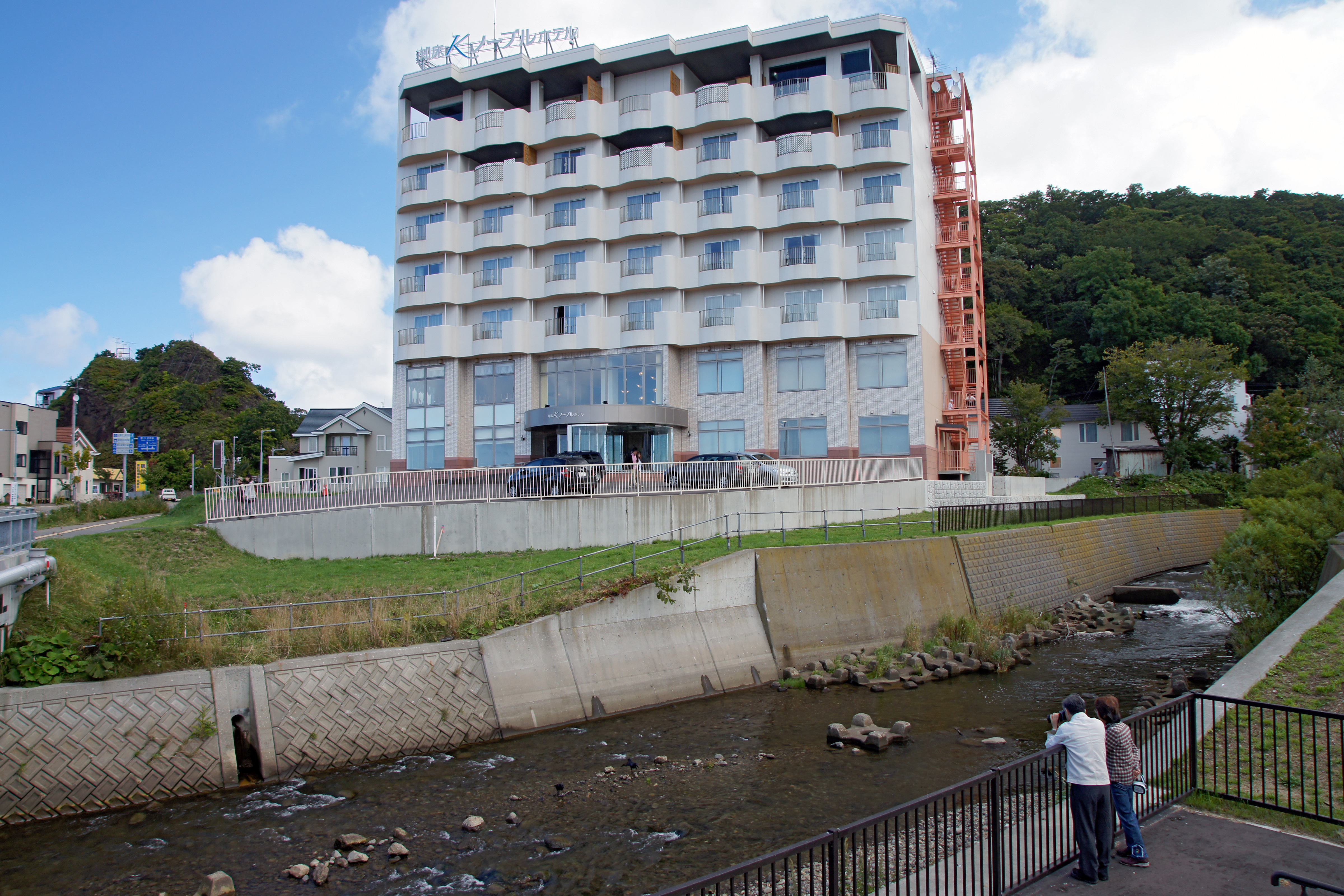 Pereke_River and Shiretoko Noble Hotel at Shari, Hokkaido prefecture, Japan